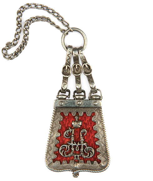 Russian Leib Guard Grodnensky Hussar regement's jetton